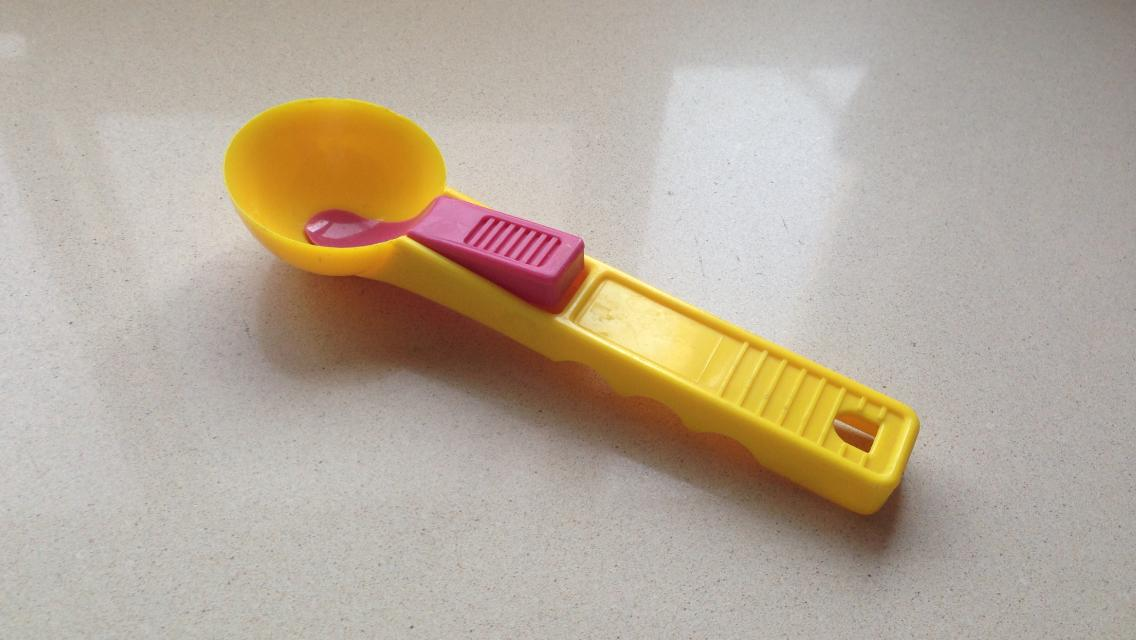 Plastic Scoop.